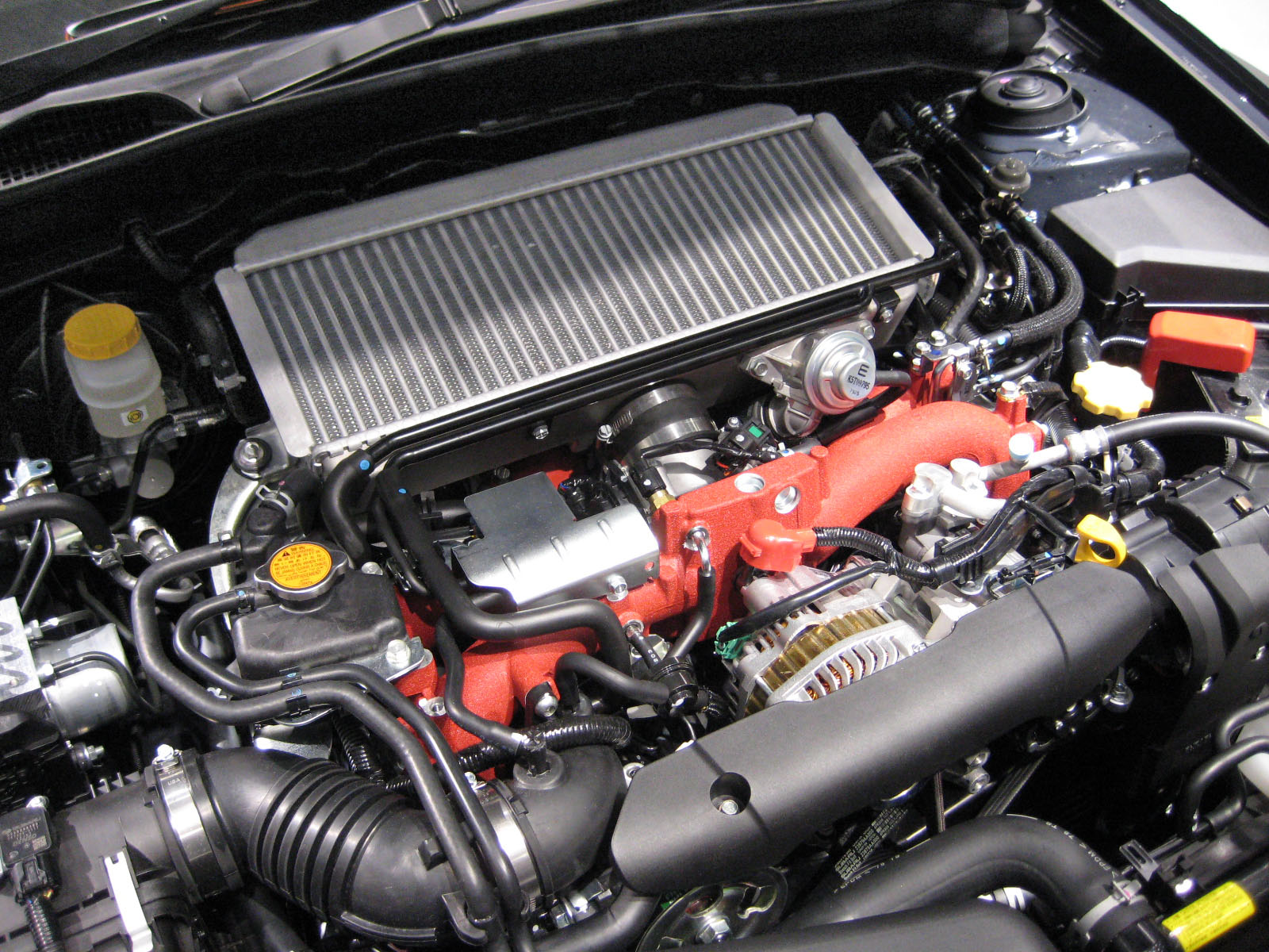 Subaru EJ20 2.0L Flat-4 DOHC Dual AVCS Twin Scroll Turbo Engine installed in 2007 Subaru Impreza WRX STI for JDM